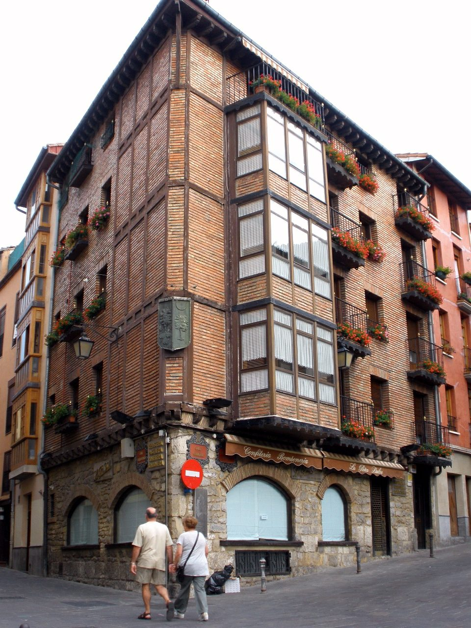 Casa en la esquina entre las calles Correría y Santo Domingo, en Vitoria-Gasteiz